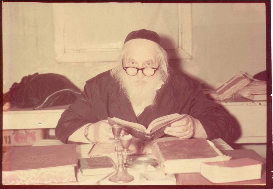 הרב נפתלי יעקב הכהן